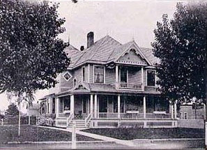 James A Quick House, Gaylord MI 1905